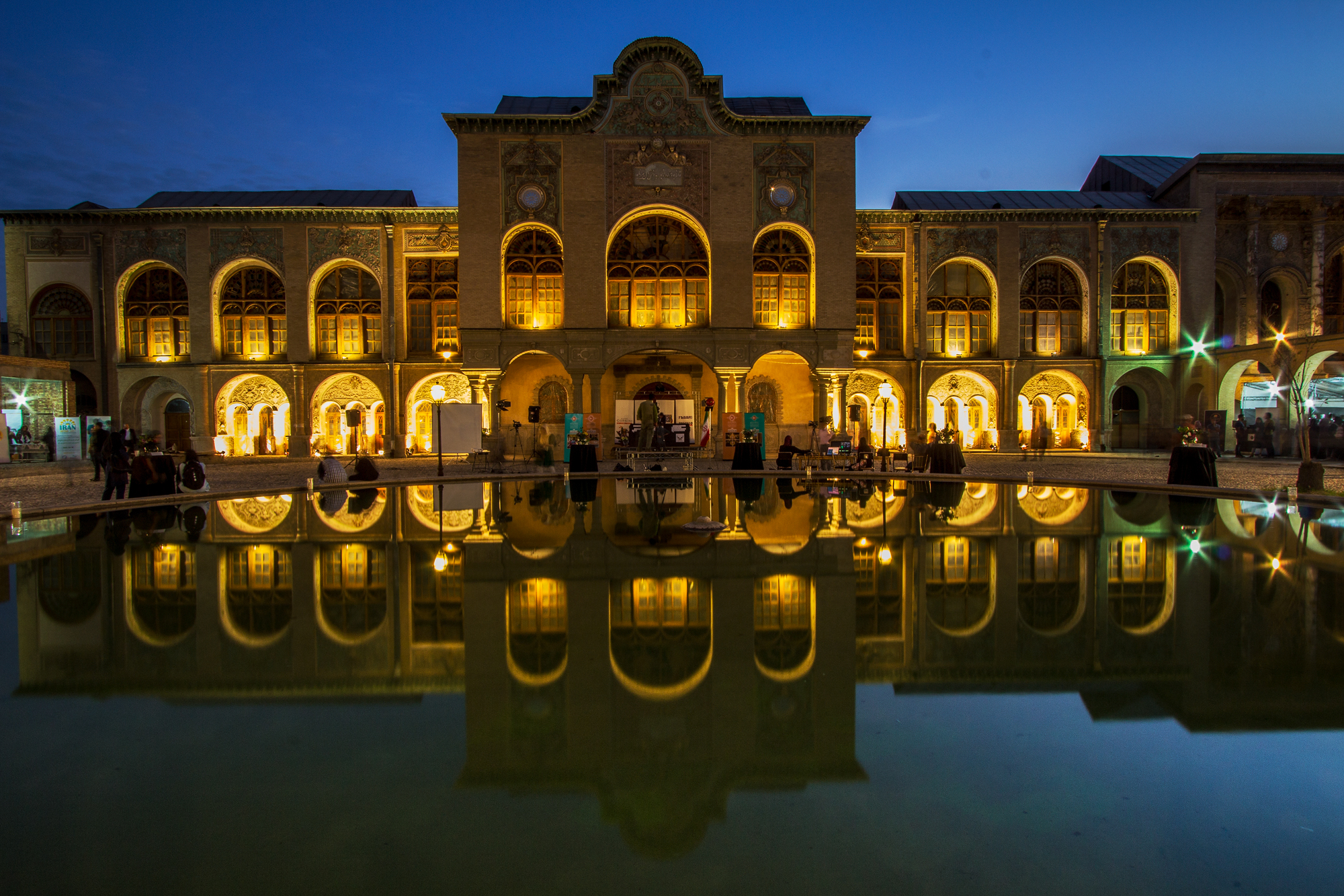 House of Masoudieh, Tehran